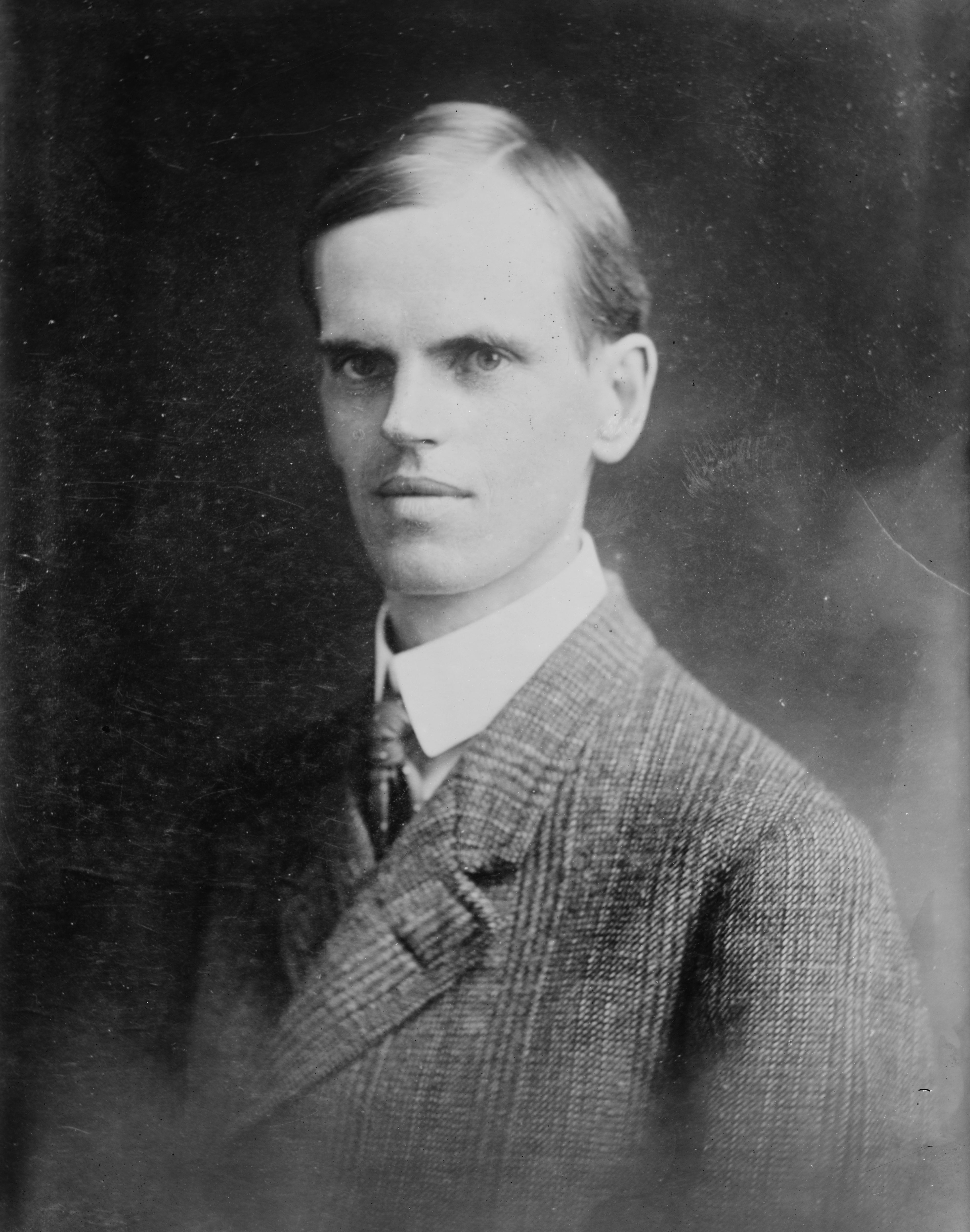 Title: Geo. Fitch Abstract/medium: 1 negative : glass ; 5 x 7 in. or smaller.